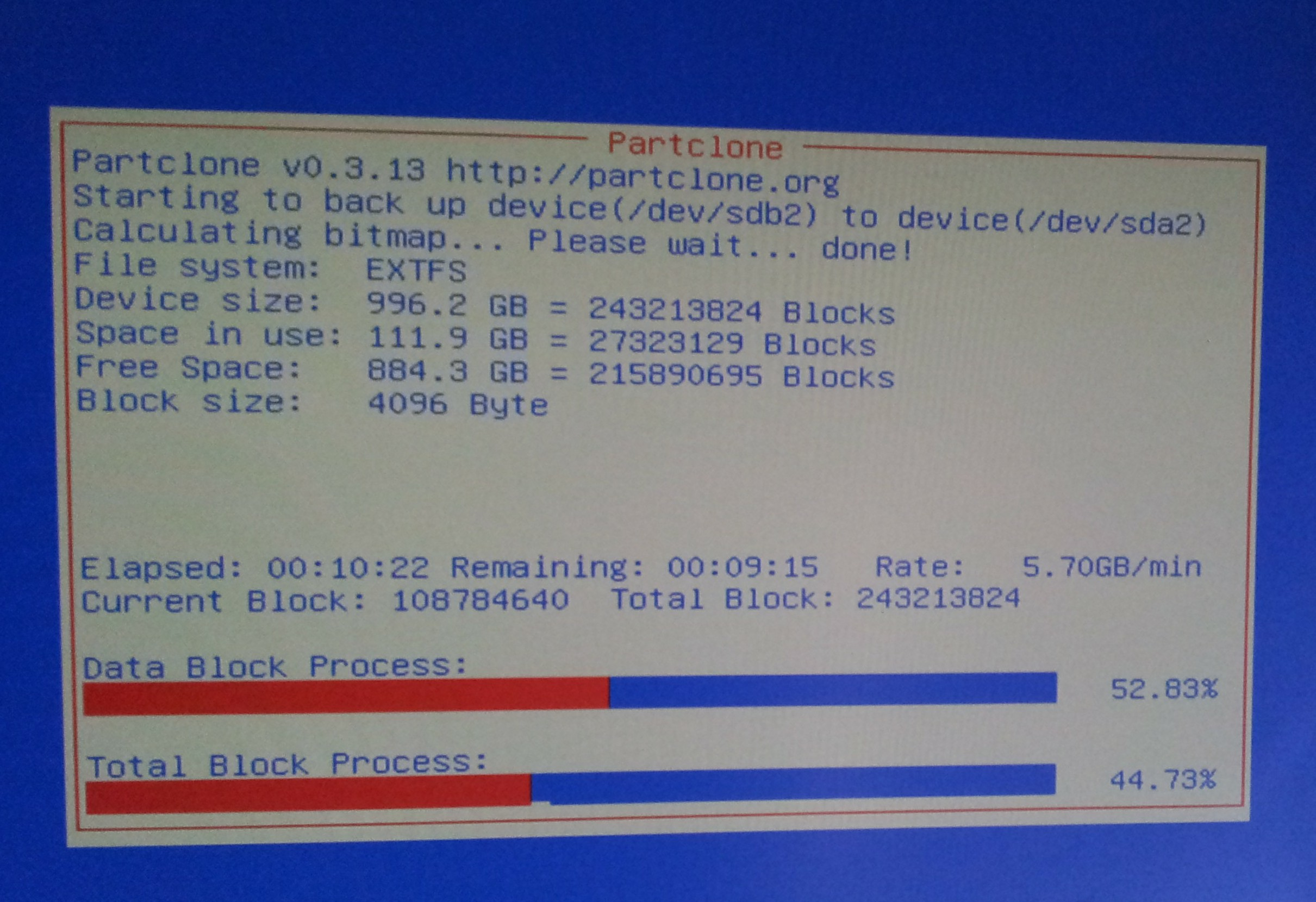 Clonezilla: process of cloning from disk to disk